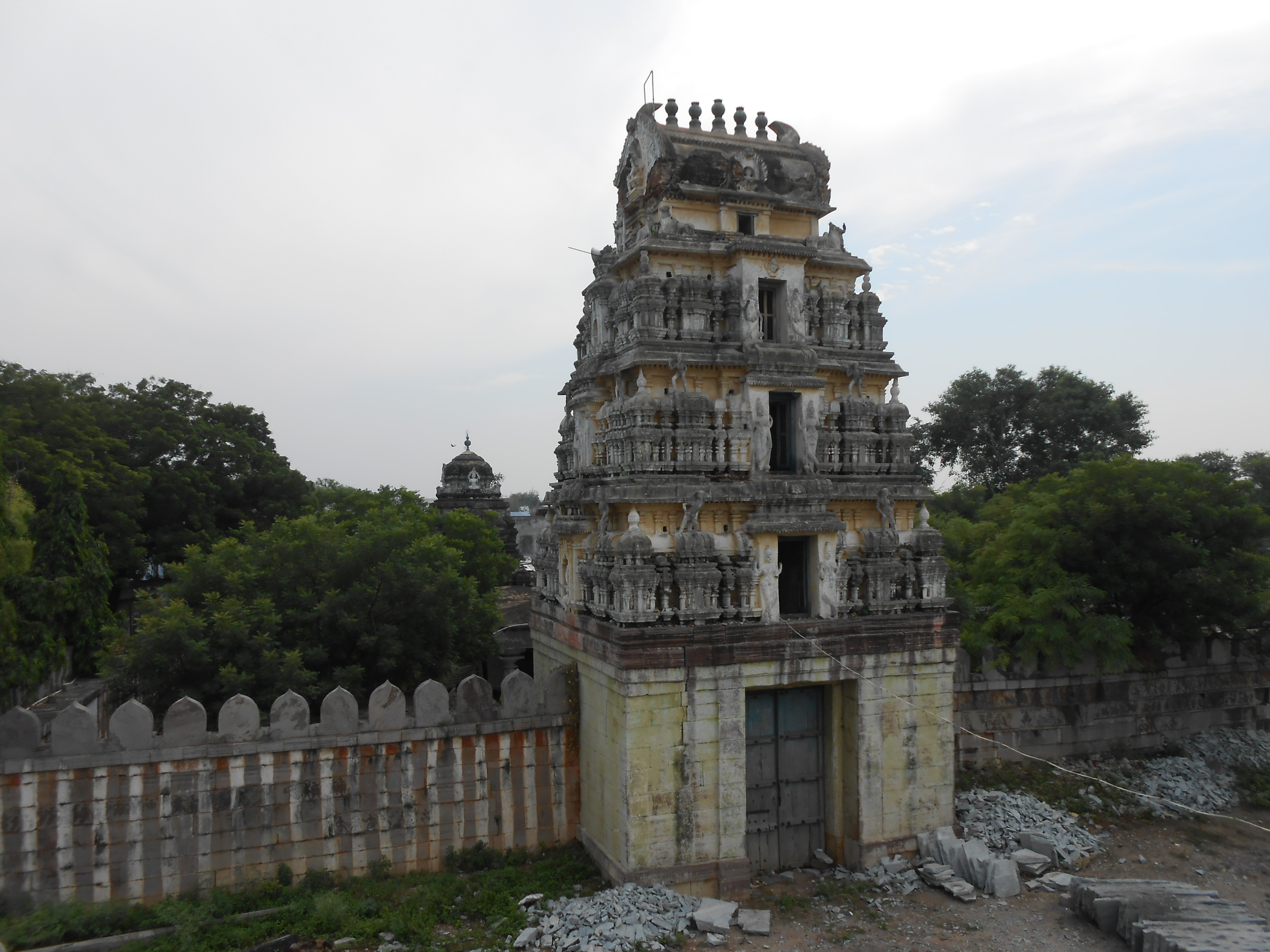 శ్రీ వీరభద్రస్వామి దేవాలయం